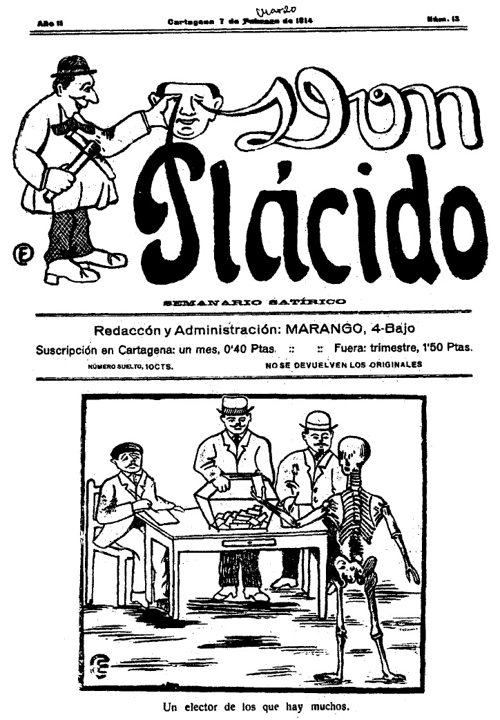 Cover of the satirical newspaper Don Plácido, published in the Spanish city of Cartagena on March 7, 1914, one day before the general election. In the caricature is shown a skeleton voting on the subtitle «An elector of which there are many», as denunciation of electoral fraud at this time held the turno between so-called dynastic political parties, and in the provinces had its consequence in the rise of the caciques.